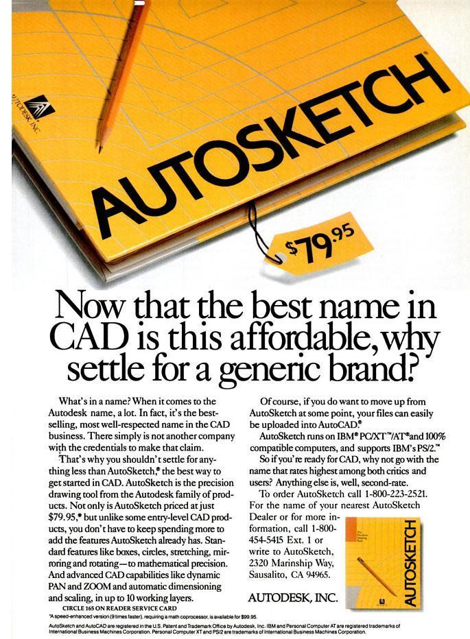 AutoDesk advertisement in September 13, 1988 issue of PC Magazine. Page 99.